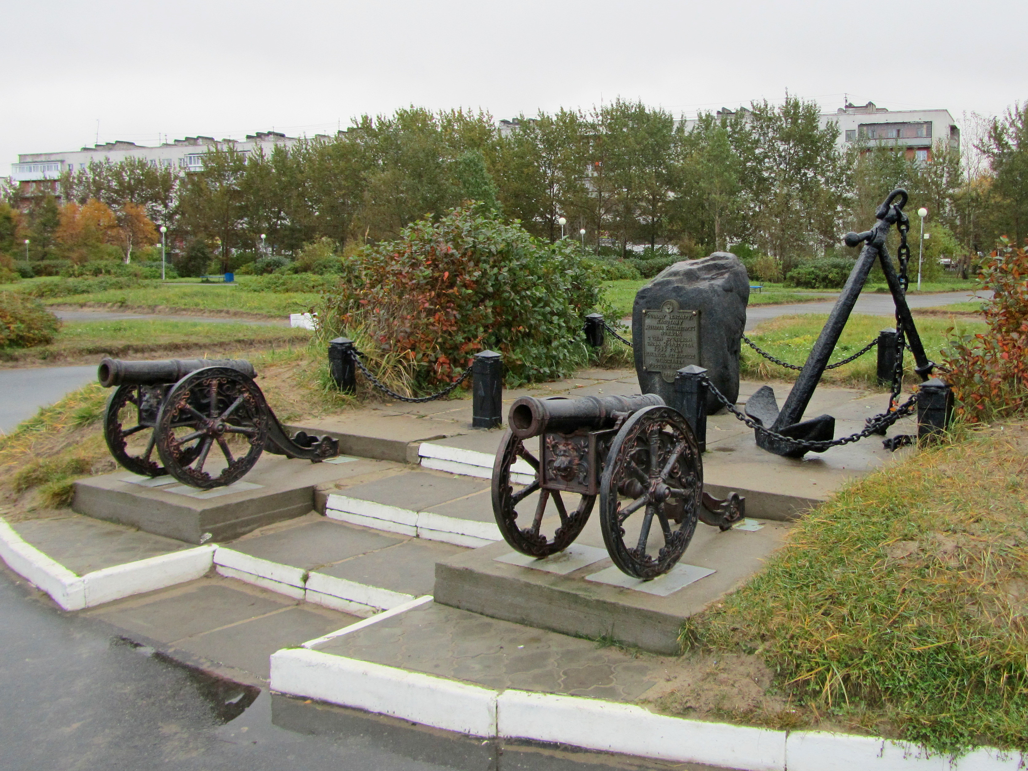 Yagry Island. Photo by Alexey Schekinov.